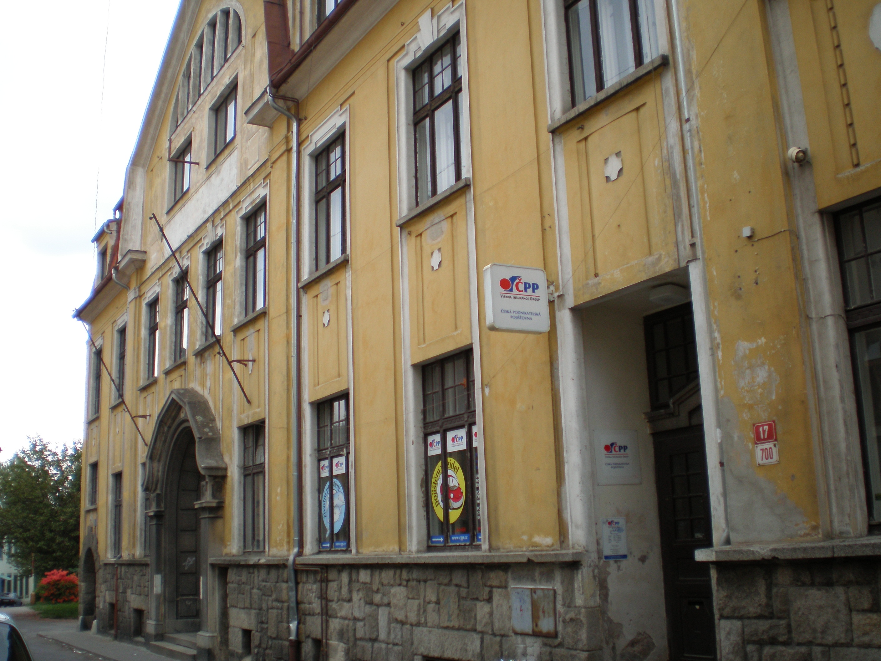 Aš, House of Culture